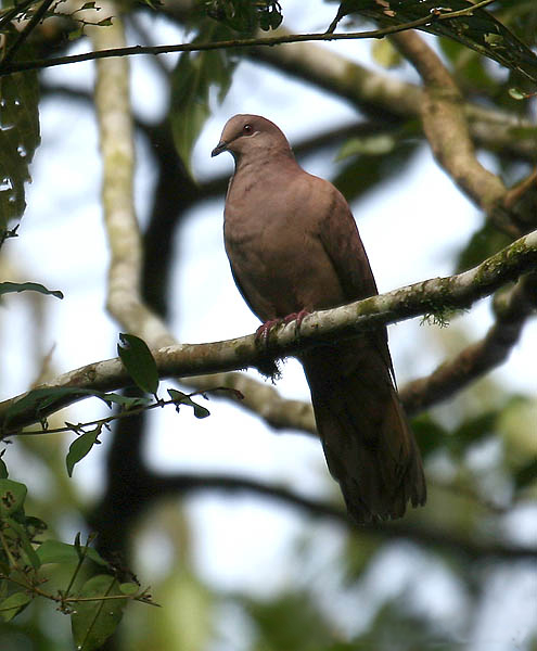 Ruddy Pigeon (Patagioenas subvinacea) at Milpe Bird Sanctuary, NW Ecuador.